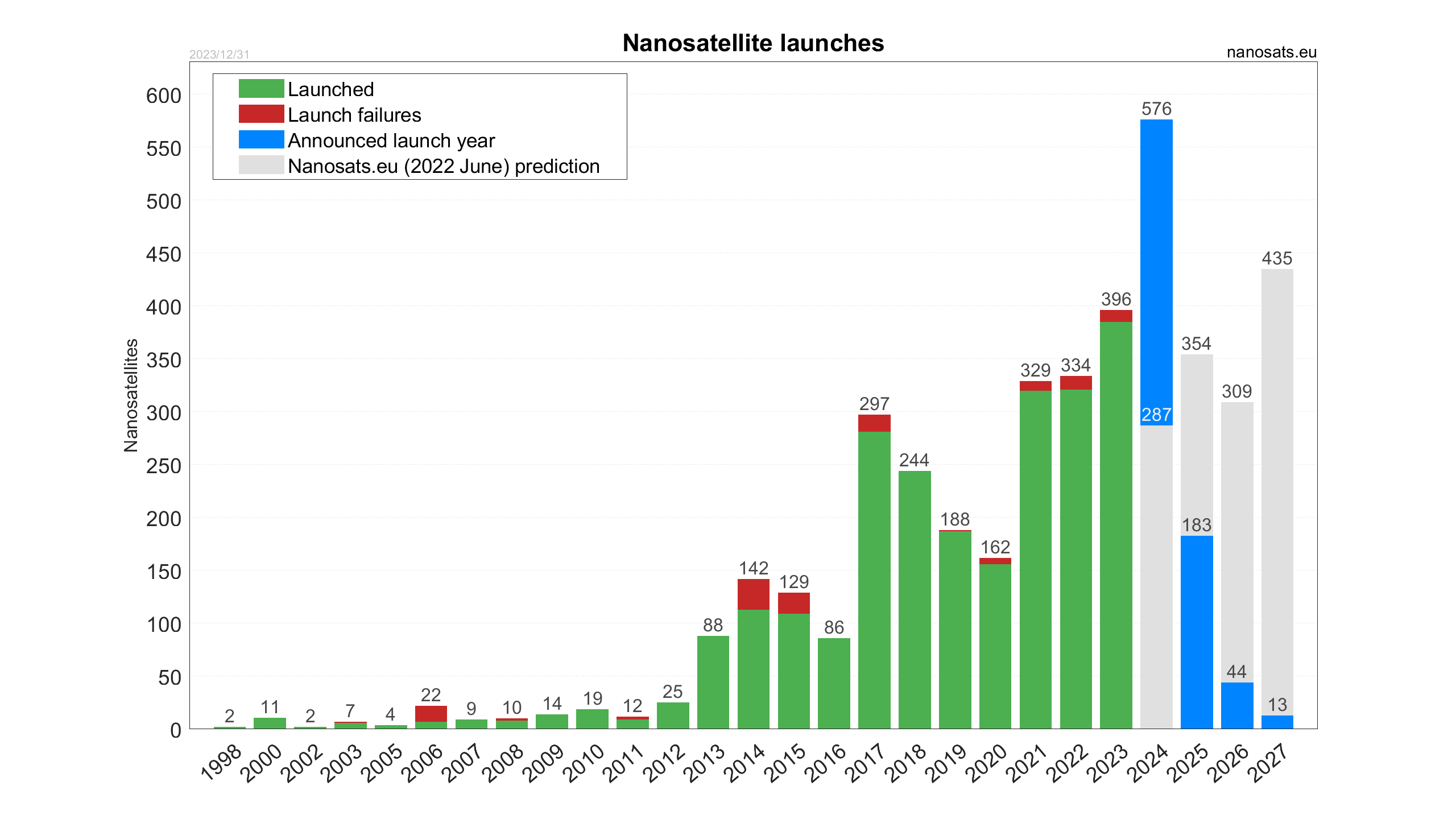 Launched, planned and predicted CubeSats